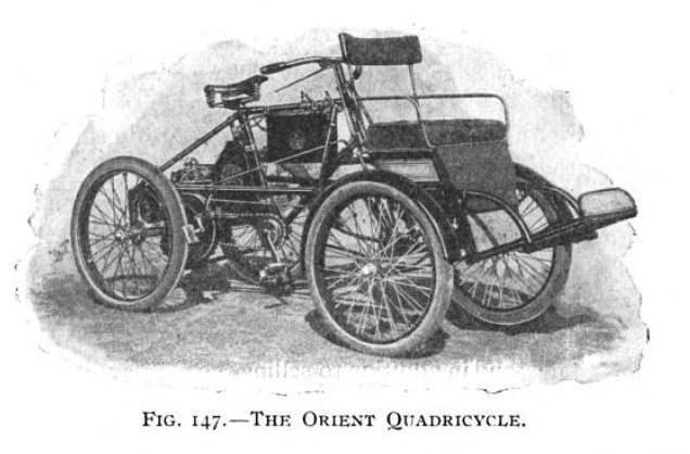 Black and white photograph or engraving of an Orient "quadricycle" manufactured by Waltham Manufacturing Company c. 1899-1900